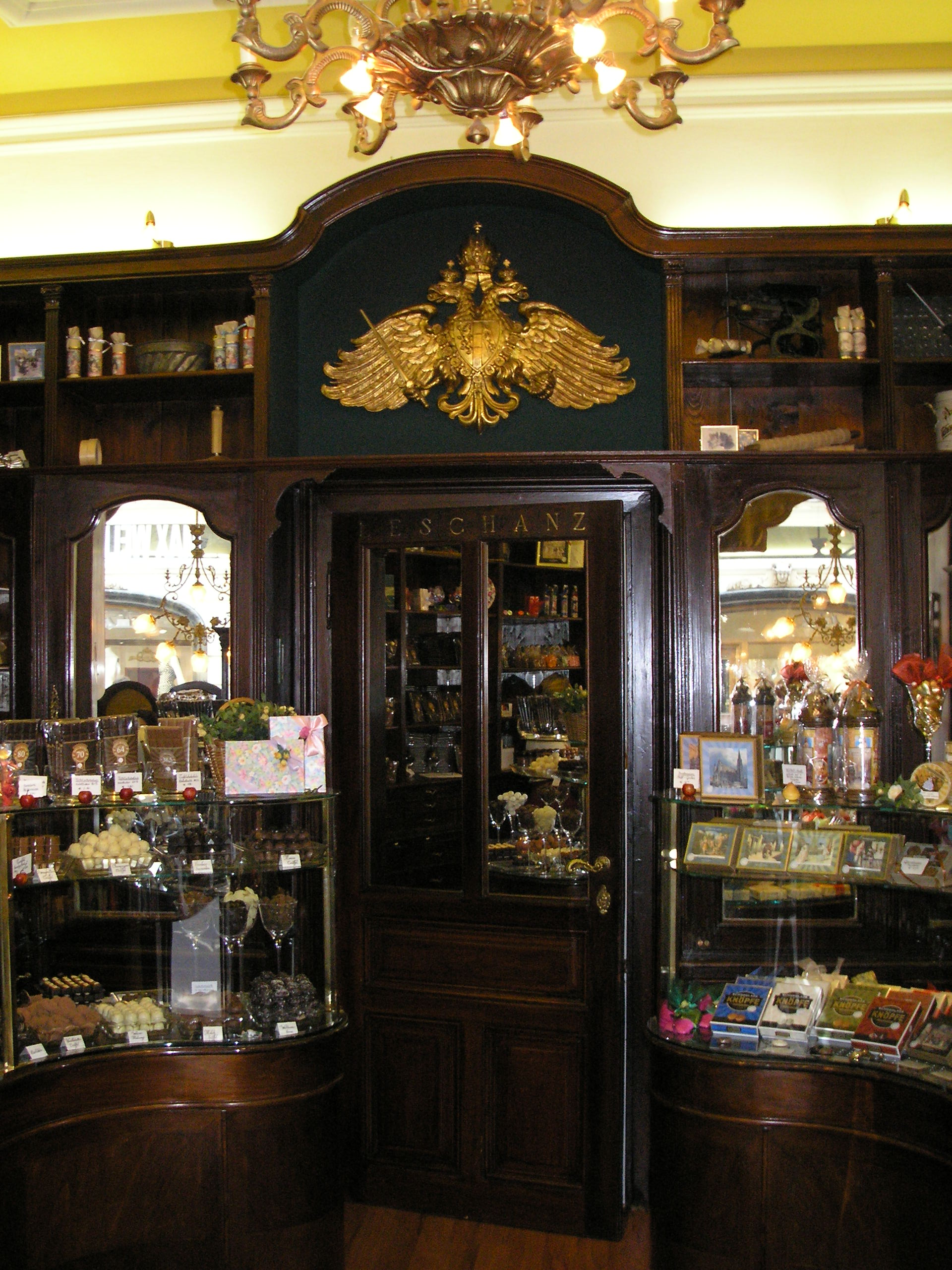 Image of the store Frimmel, also known as the "Knopfkönig". Purveyor to the Impmerial and Royal Court in Vienna, for buttons. In Vienna's first district Innere Stadt.